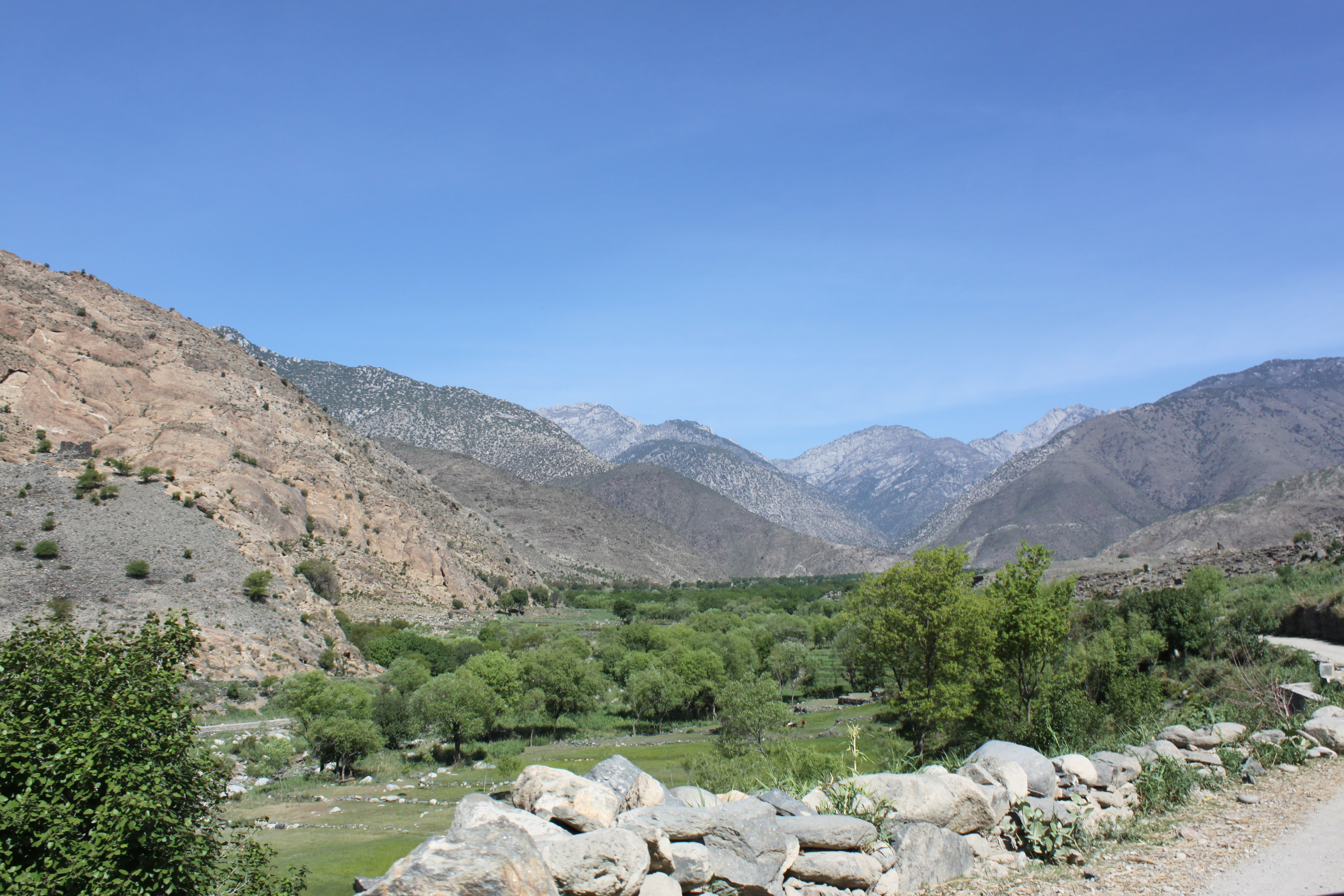 Photos from our trip to Dari Noor